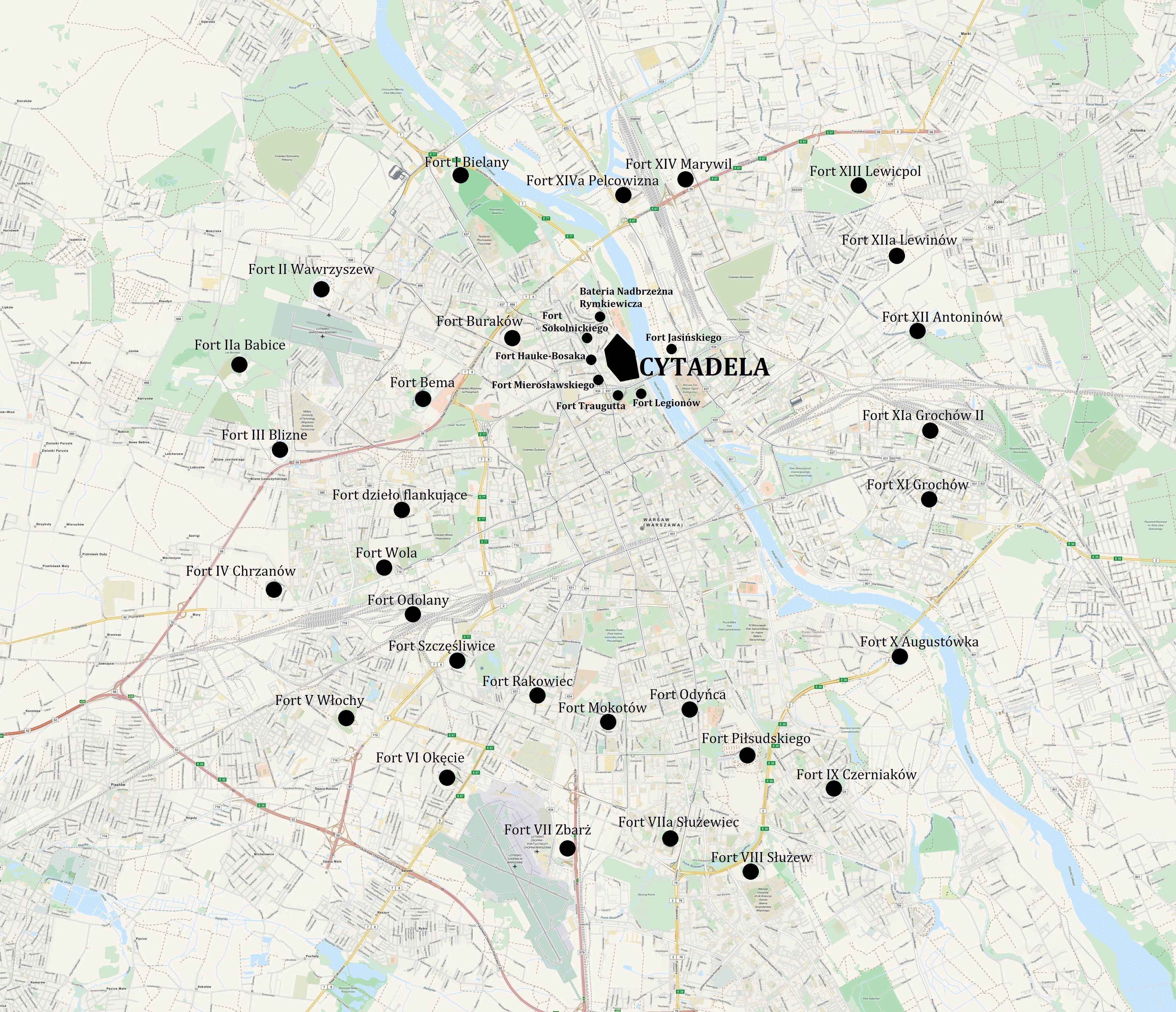 Map of the Warsaw Fortress. Map data based on the Open Street Map, © OpenStreetMap contributors.